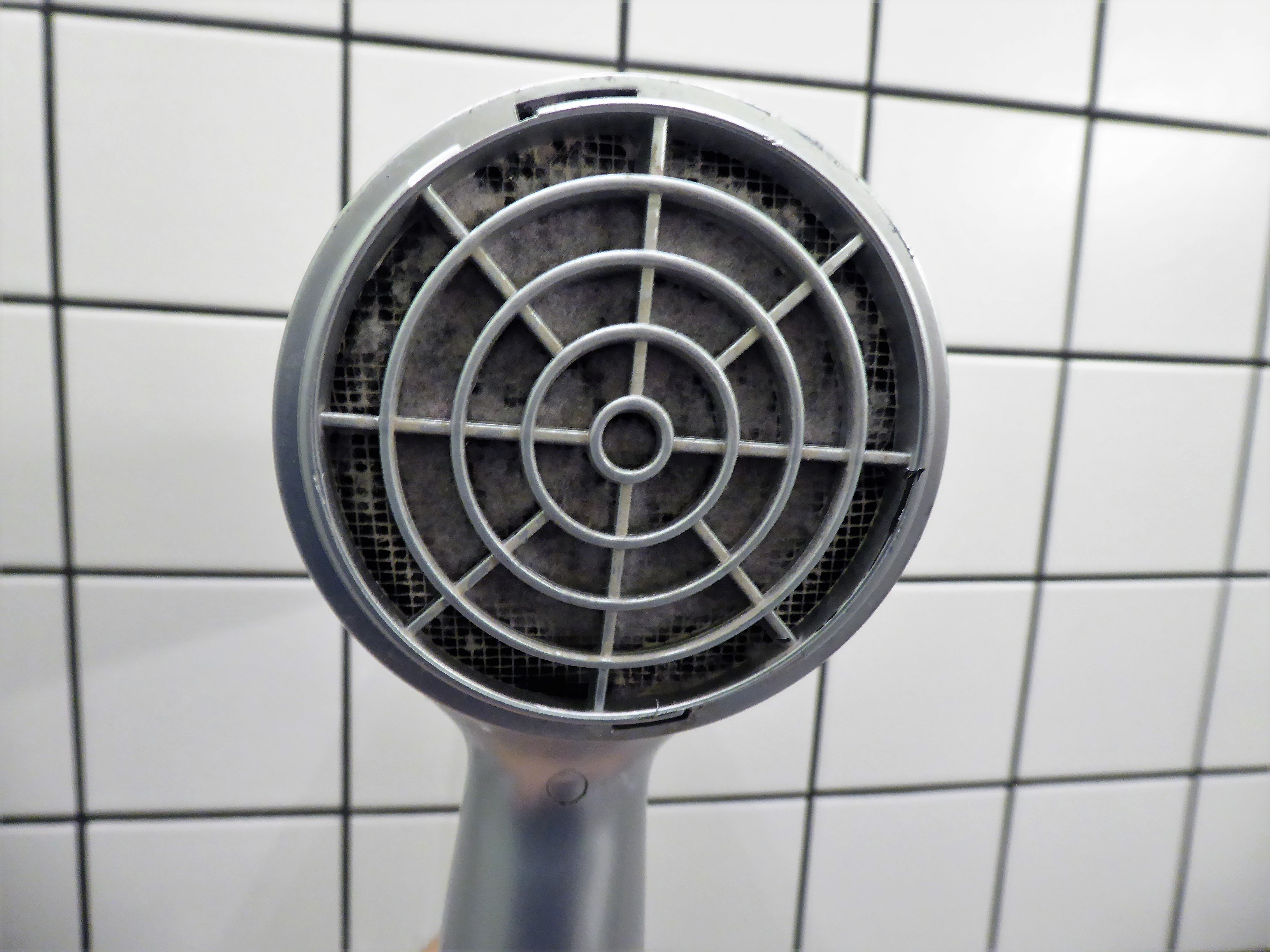 Clogged lint filter in a hair dryer